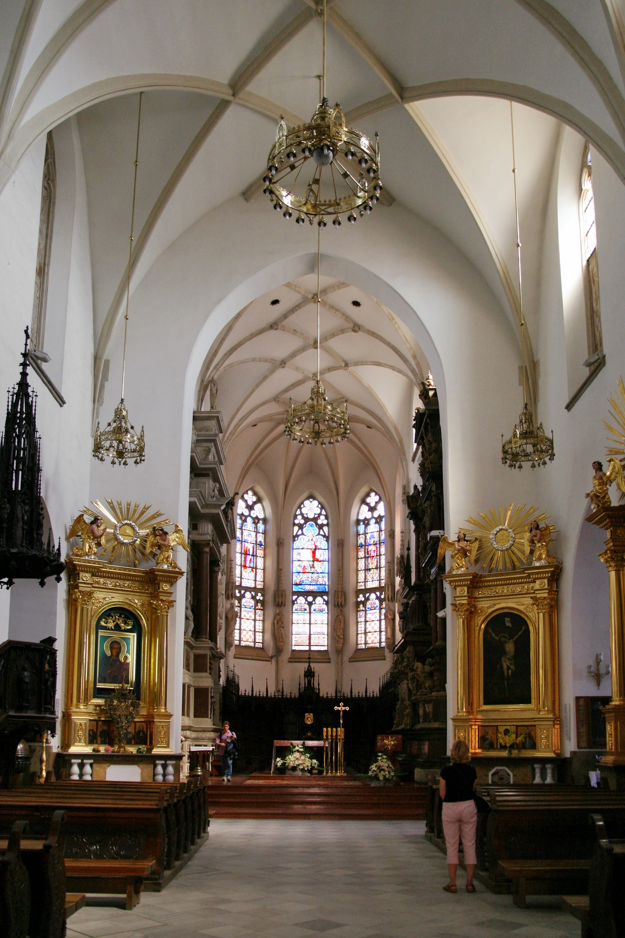 Tarnów Cathedral.